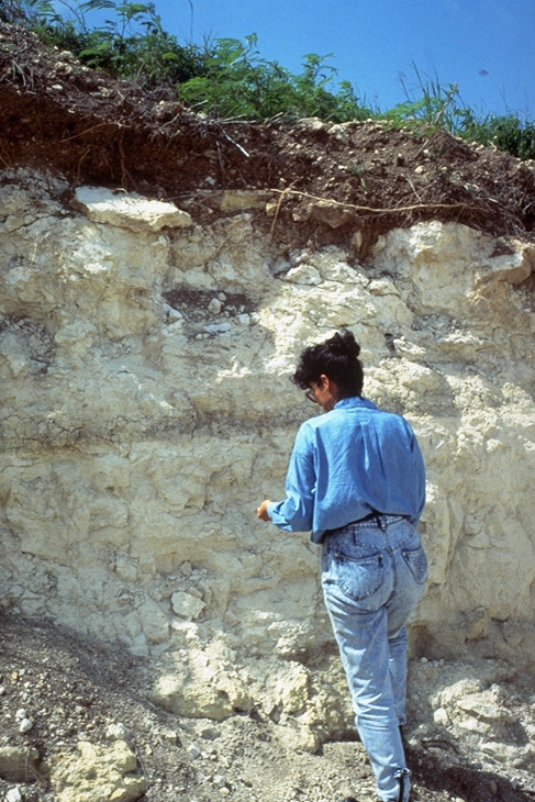 Arawak soil series. St. Croix, U.S. Virgin Islands MLRA 273